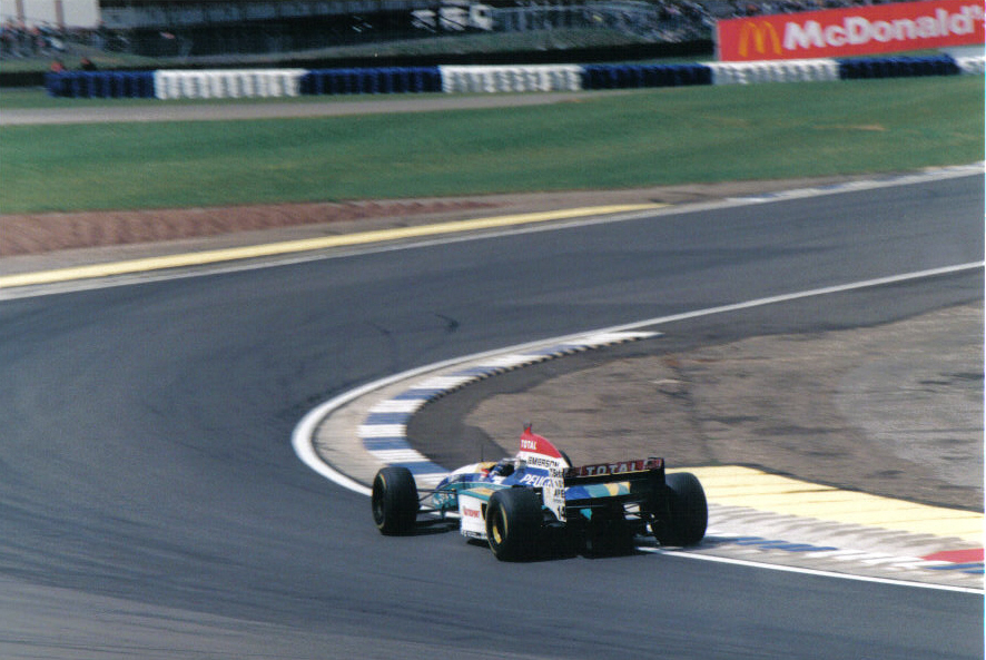 Rubens Barrichello driving for Jordan Grand Prix at the 1995 British Grand Prix.